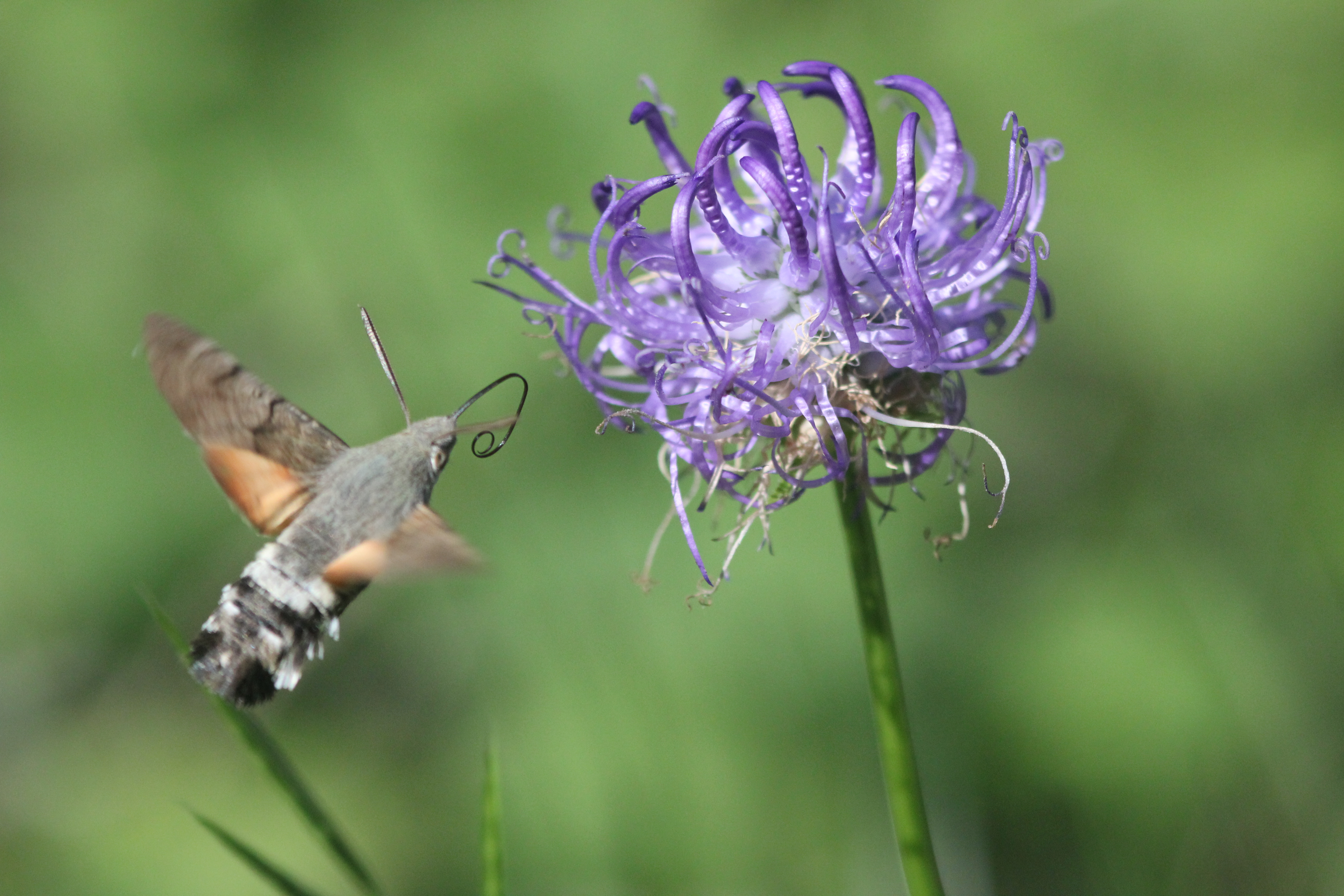 hummingbird hawk-moth